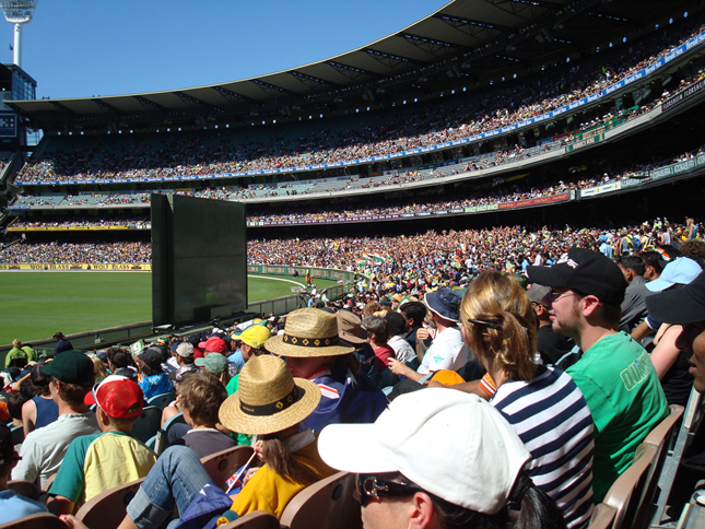 Melbourne Cricket Ground Crowd